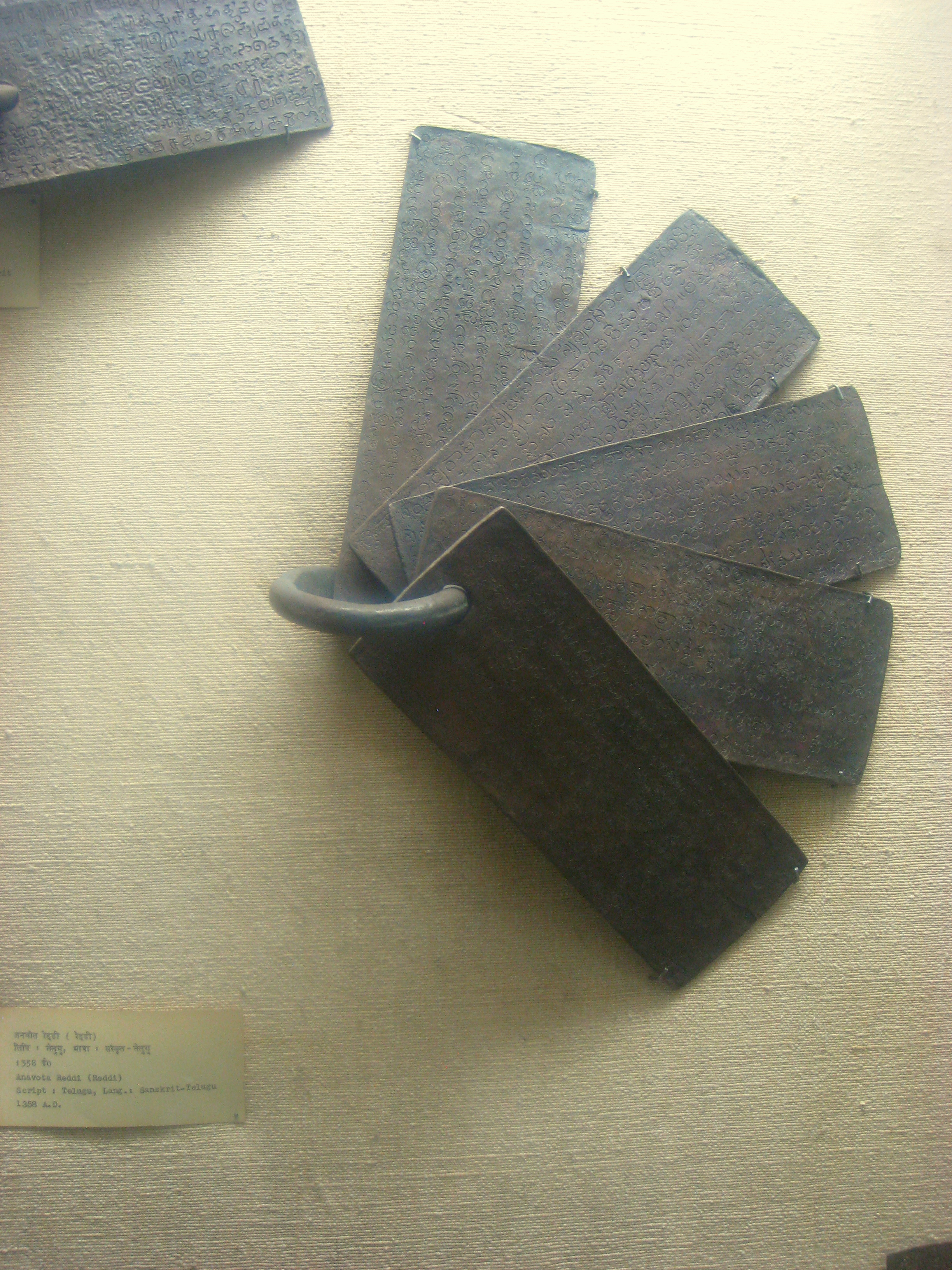 Anavota Reddi, Sanskrit-Telugu, 1358. Copper plates, exhibited in the National Museum, New Delhi, India.